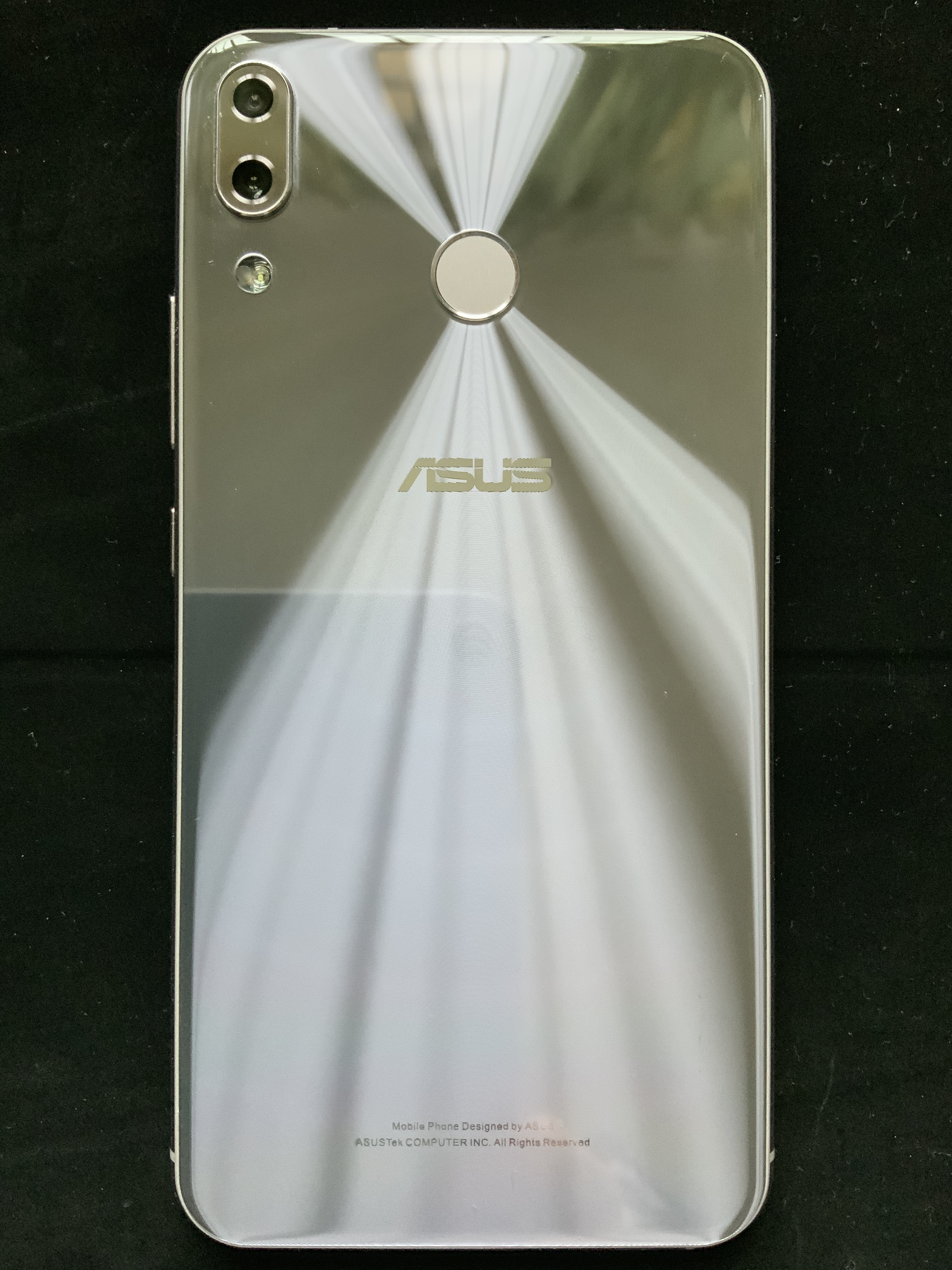 ASUS ZenFone 5 (ZE620KL) rear